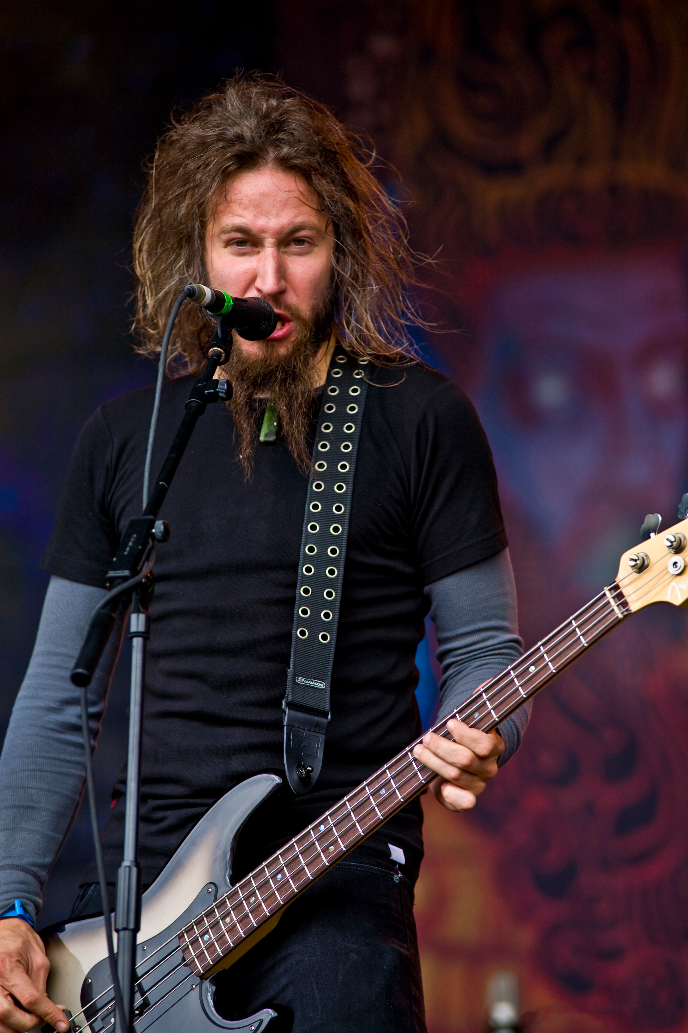 Troy Sanders from Mastodon at the Saturn Stage // Sonisphere UK 2009 photo by: Marcela Faé